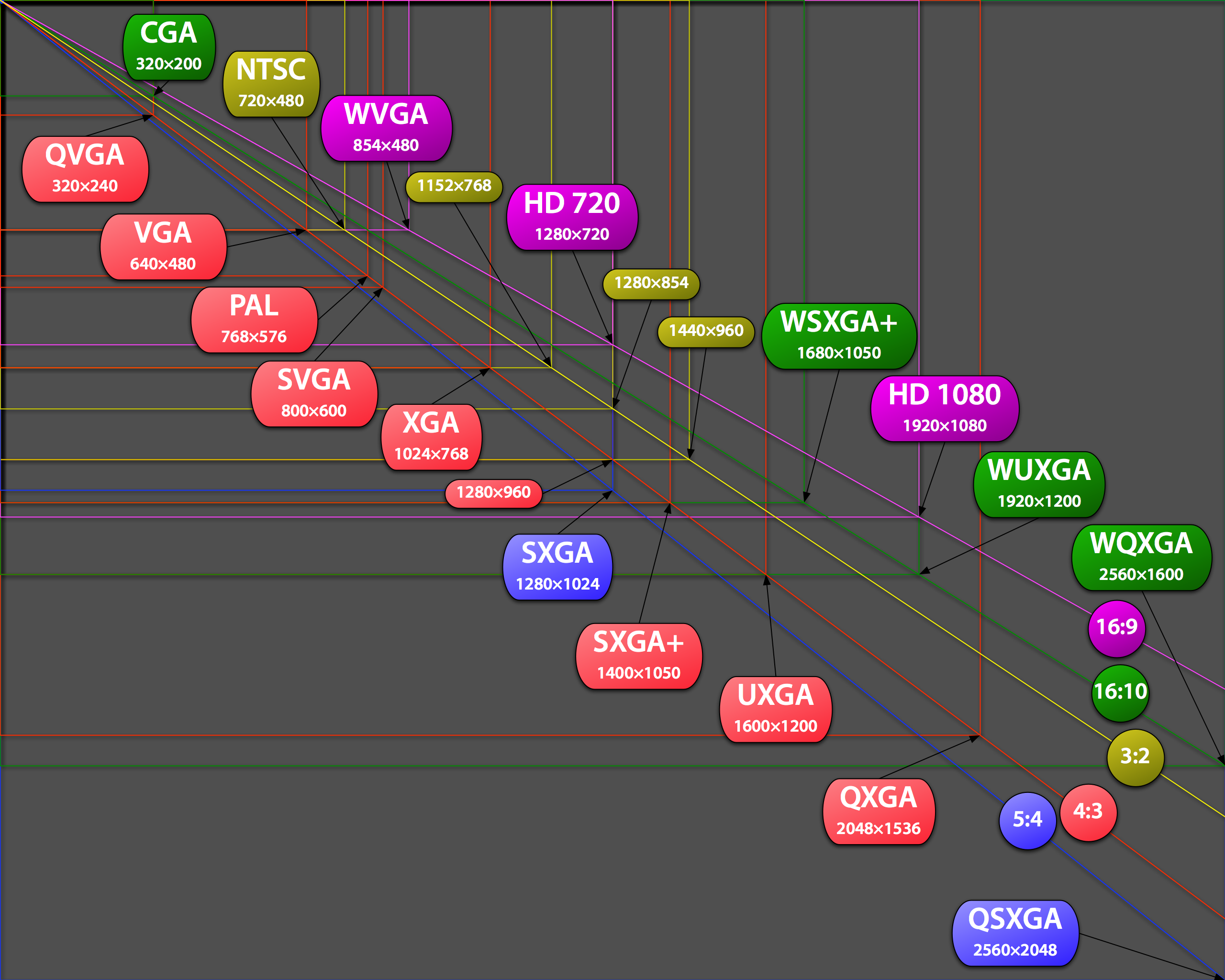 Shows exact scale representations of some video standards, and categorizes by color according to one of five common aspect ratios.